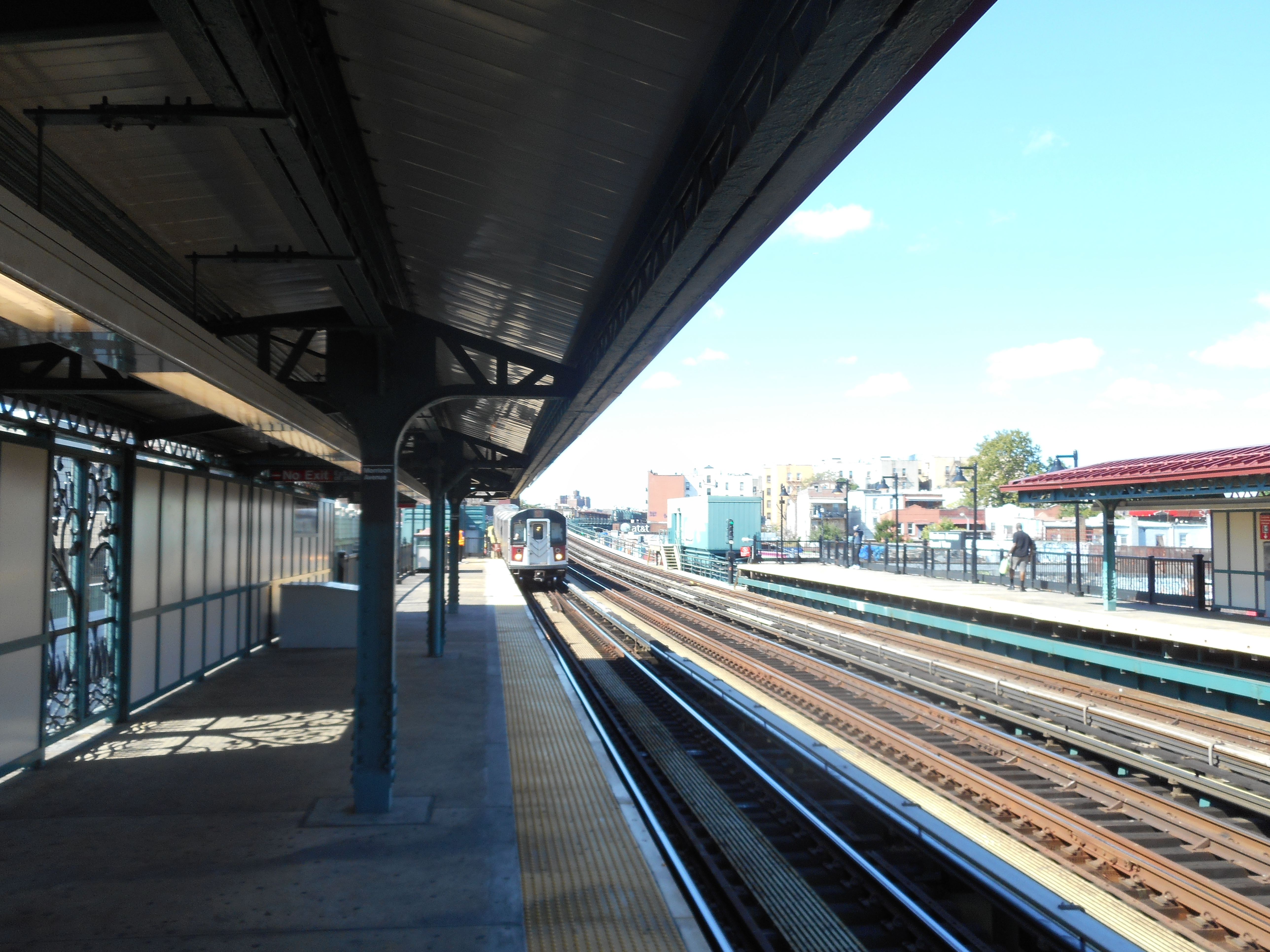 An R142A midday 6 train approaches the Morrison Avenue – Soundview (IRT Pelham Line) subway station.